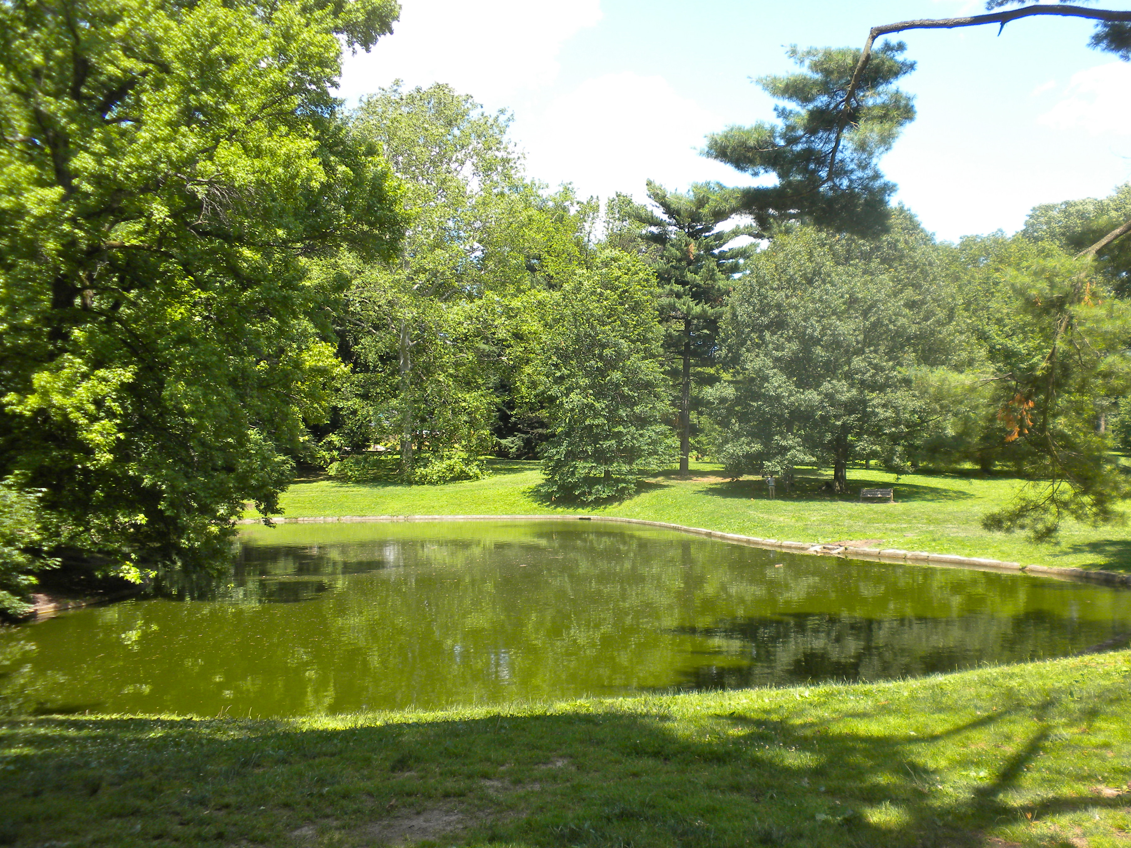 Pond in Pastorius Park in NW Philadelphia neighborhood of Chestnut Hill. Named after Francis Daniel Pastorius